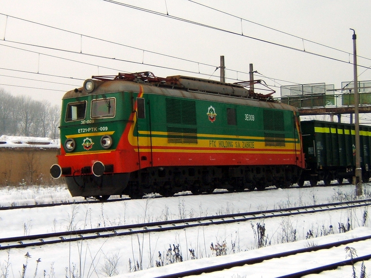 ET21 class electric locomotive. Property of PTKiGK Zabrze.